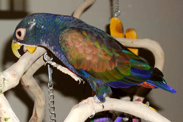 A pet Bronze-winged Parrot climbing on perches.